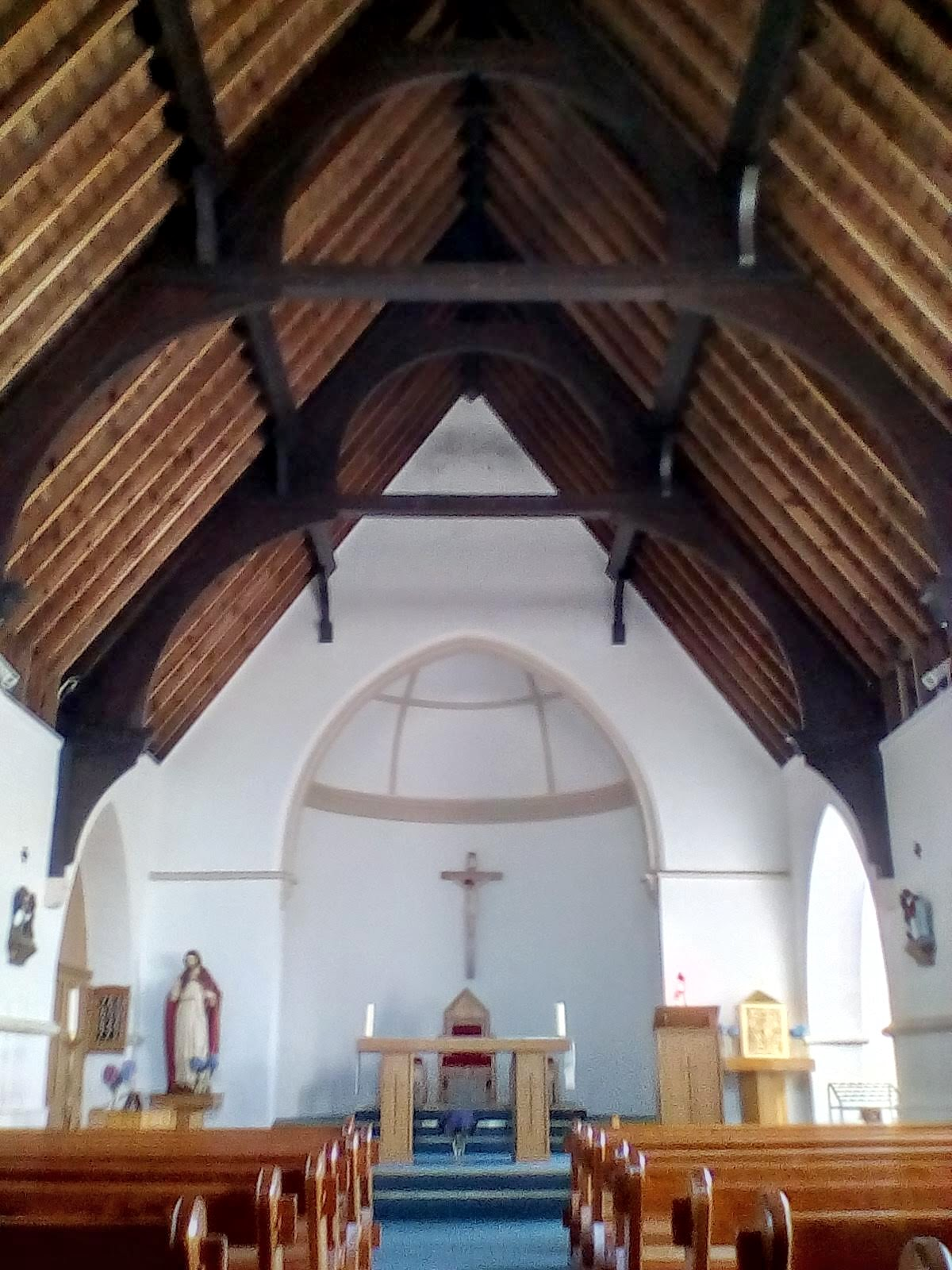 Sacred Heart Roman Catholic Church, Wigtown, Scotland, architect J. Garden Brown, (1879)